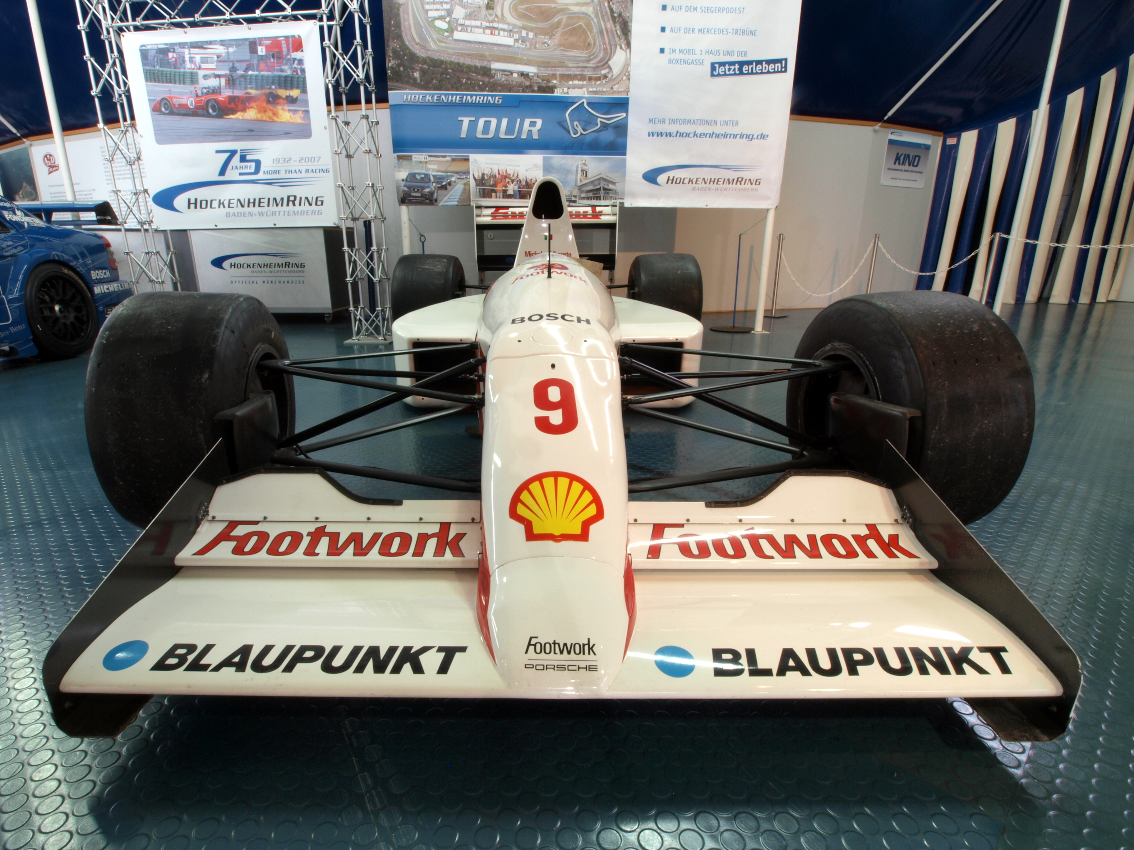 Photographed at the Motor-Sport-Museum am Hockenheimring, Germany.